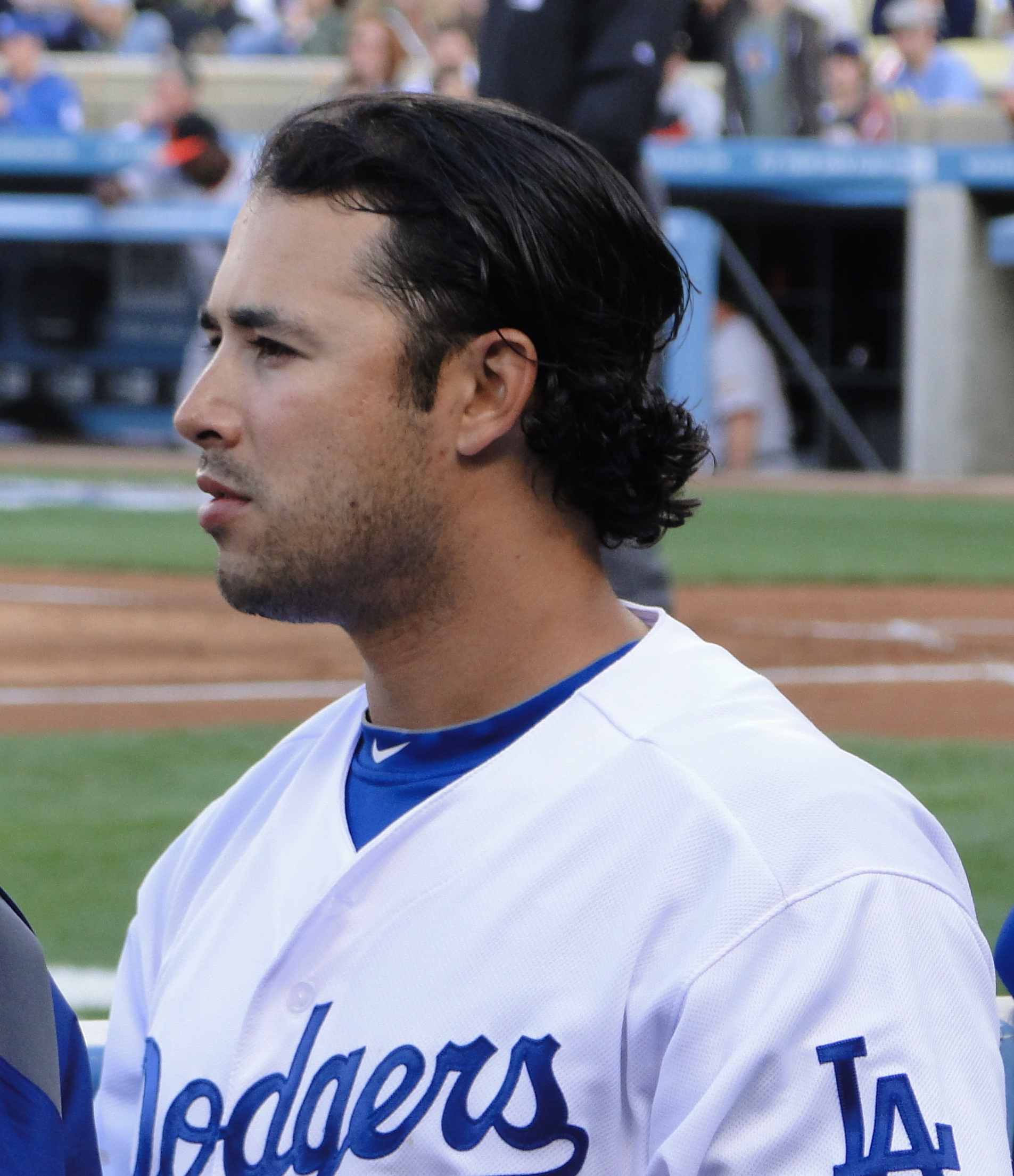 Photograph of Andre Ethier in dugout at Dodger Stadium.